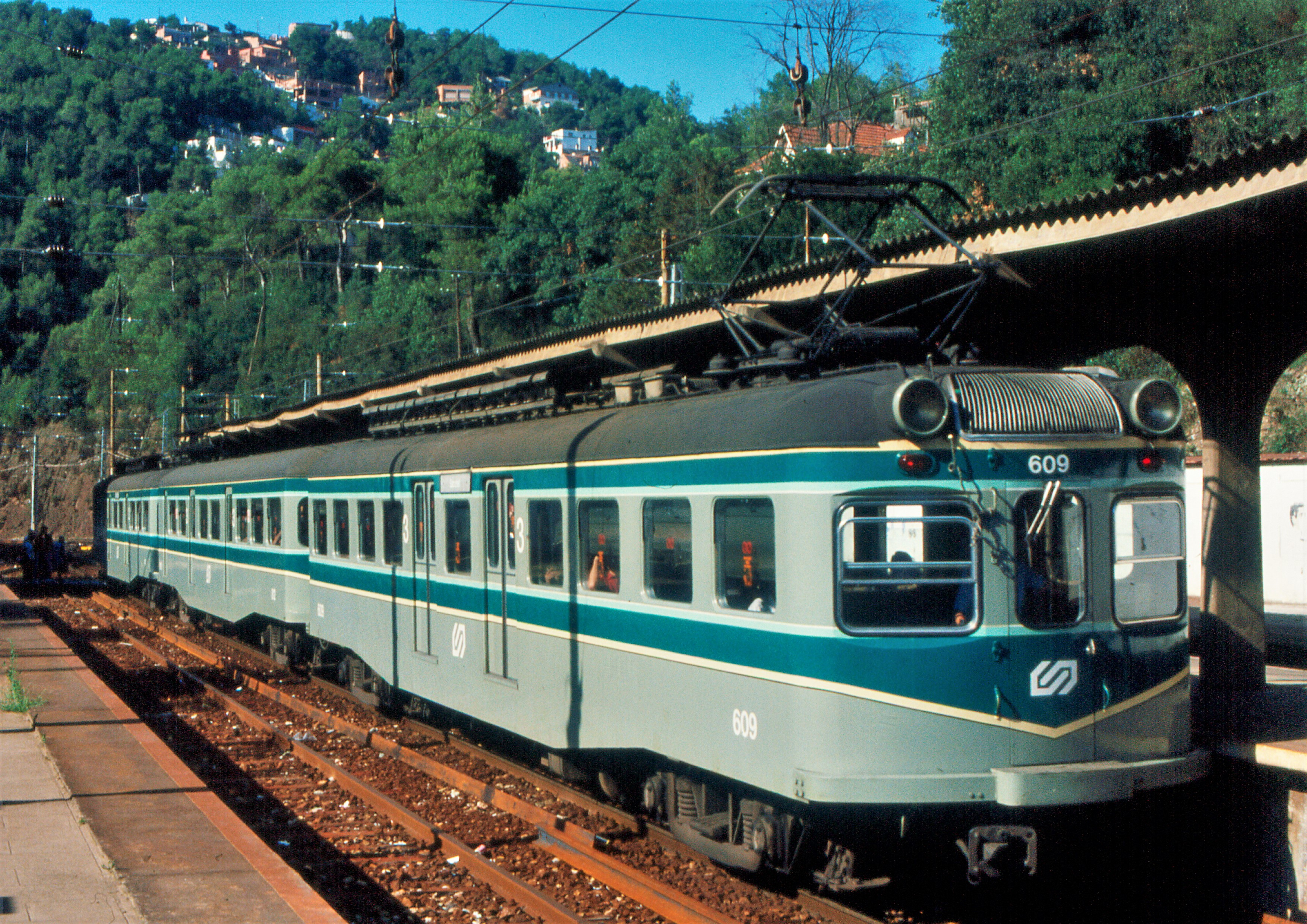 A train of the 400 series of Ferrocarrils de la Generalitat de Catalunya (FGC) in Les Planes in the direction of Barcelona. It is headed by the 609 motor car, renovated from one of the urban service.